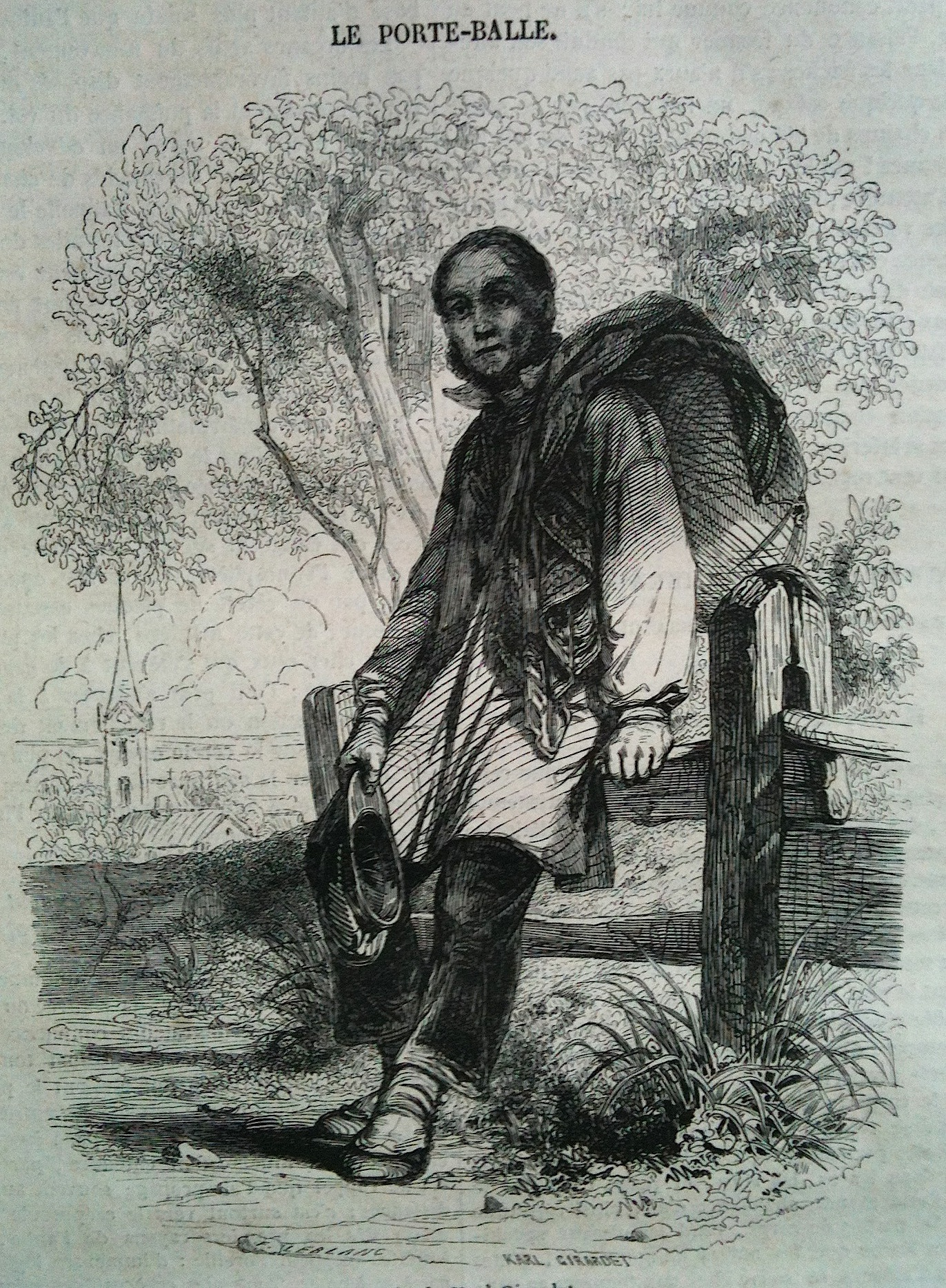 Le Porte-balle designed by Karl Girardet, woodcut published in Le Magasin pittoresque, 1851, issue 13, page 97.